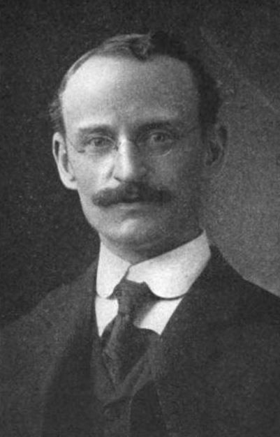 Dr. Theodore Hough, Vice-president of the American Association for Physiology, professor of physiology, University of Virginia.